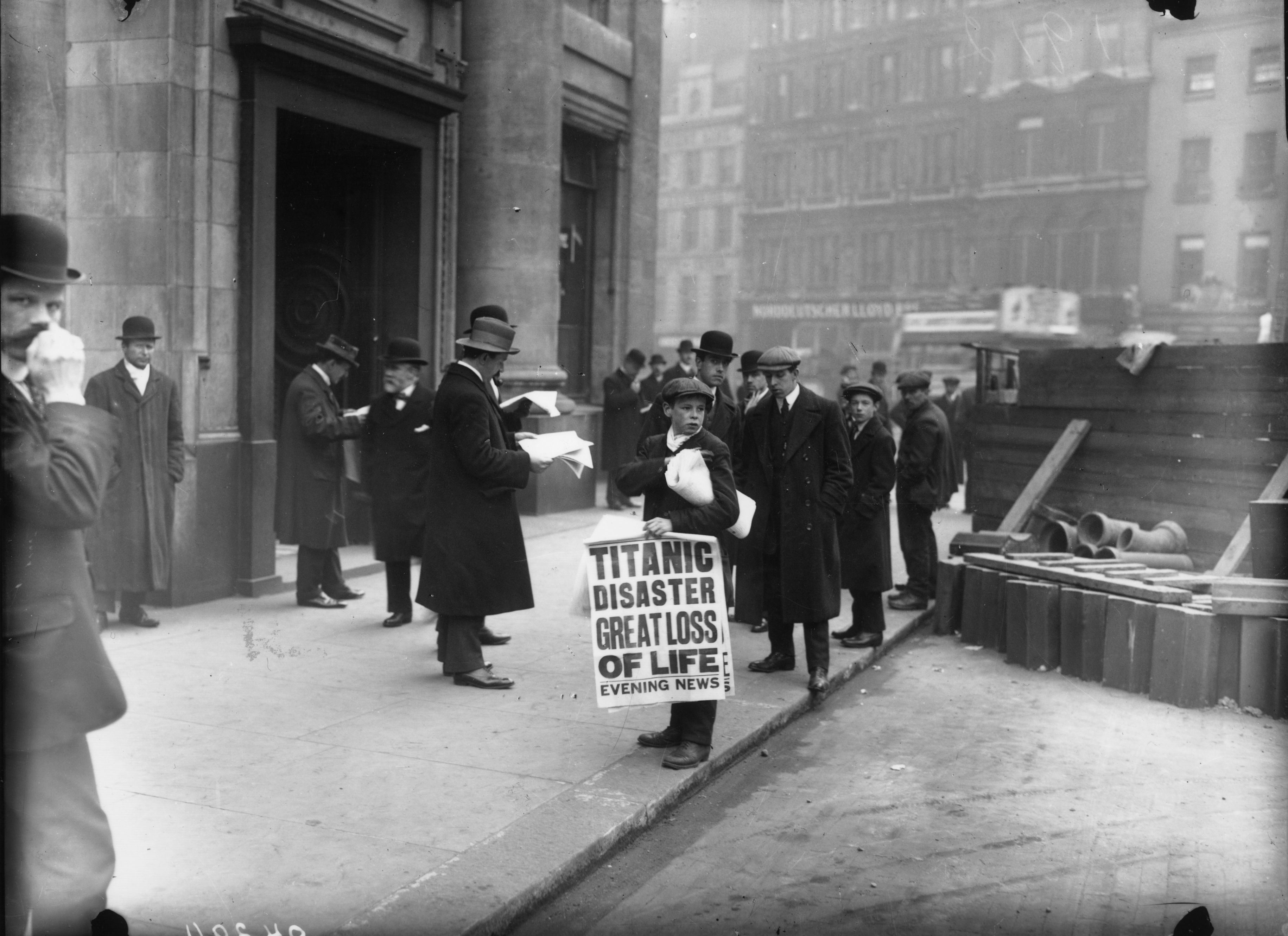 Ned Parfett, paperboy, outside the White Star Line offices in London, April 16, 1912